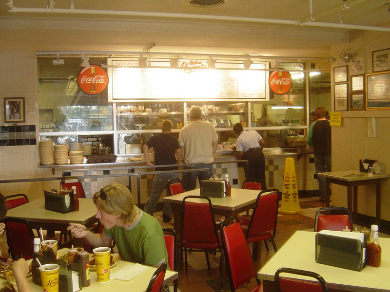 Interior of Arthur Bryant's Barbeque at 18th and Brooklyn in Kansas City. Photo taken by Bobak Ha'Eri. September 1, 2006. Please observe license and properly cite in use outside Wikipedia.